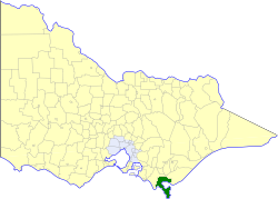 Location of the Shire of South Gippsland within Victoria.